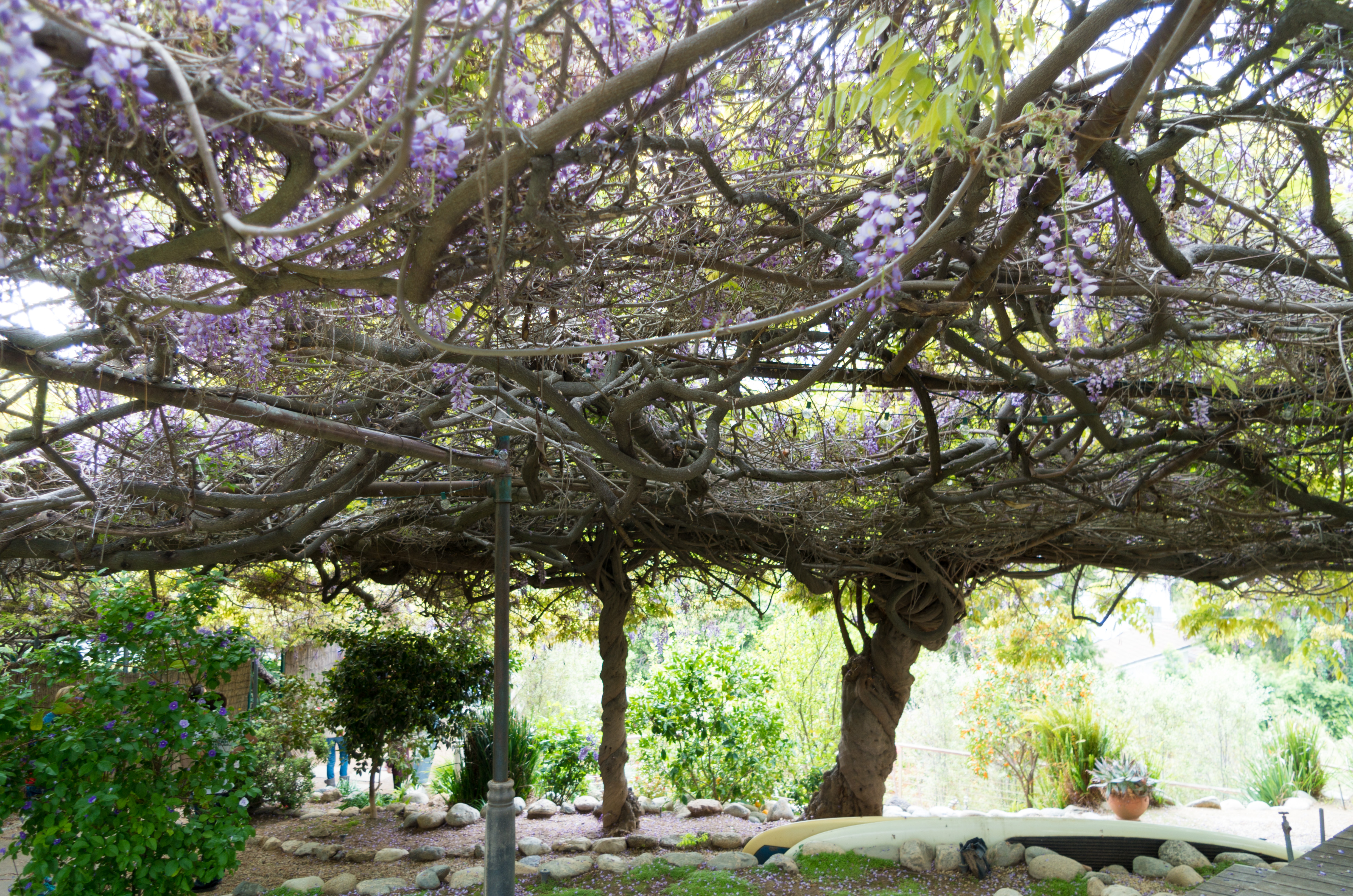 The world's largest wisteria plant, in Sierra Madre, California, which is open to the public one day a year.